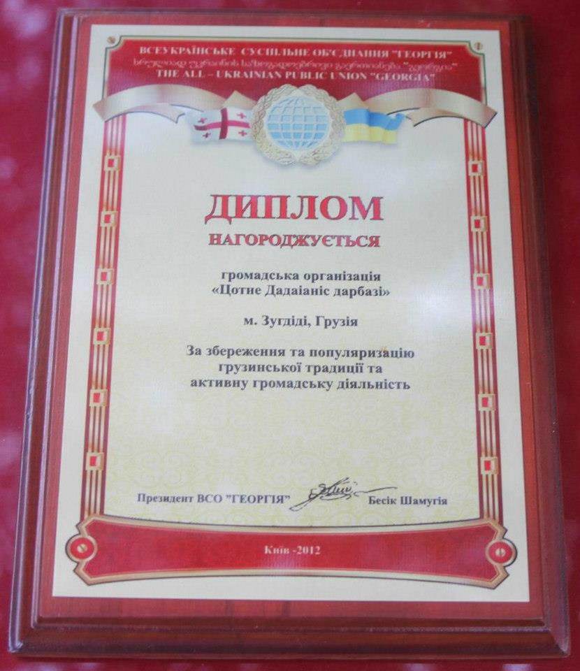 Cotne dadianis darbazi